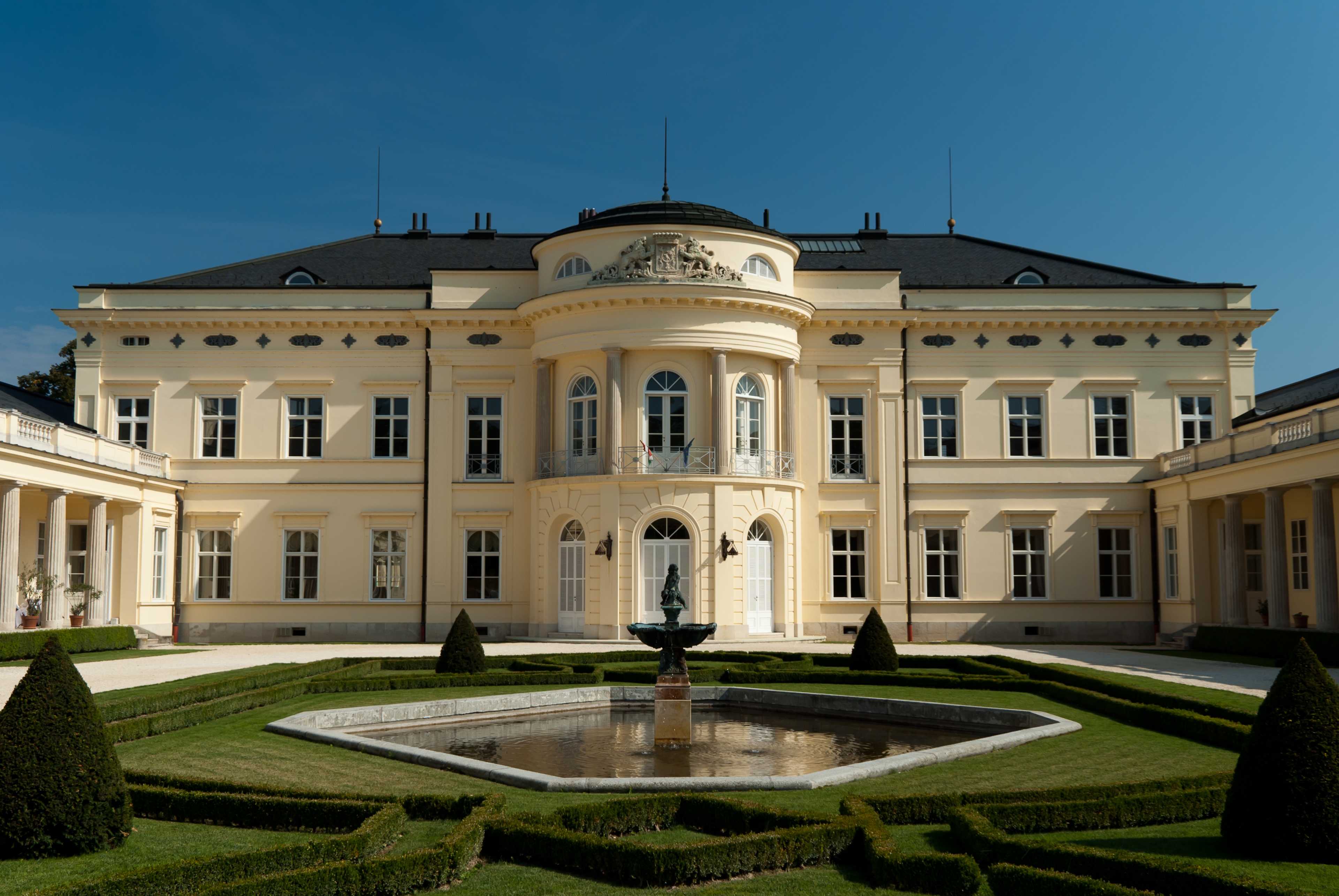 Károlyi Palace, in Fehérvárcsurgó, Fejér County, Hungary